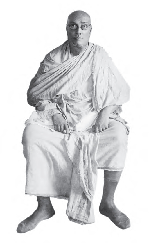 Swami Vijnanananda, a direct disciple of 19th century mystic Ramakrishna Paramahamsa. Also the architect of Belur Math